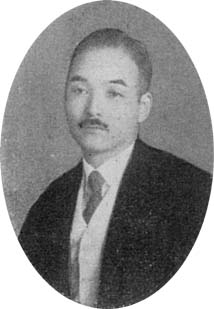 Mr. Suteji Kumaki, Manager of the Education Association of Kyoto Prefecture.